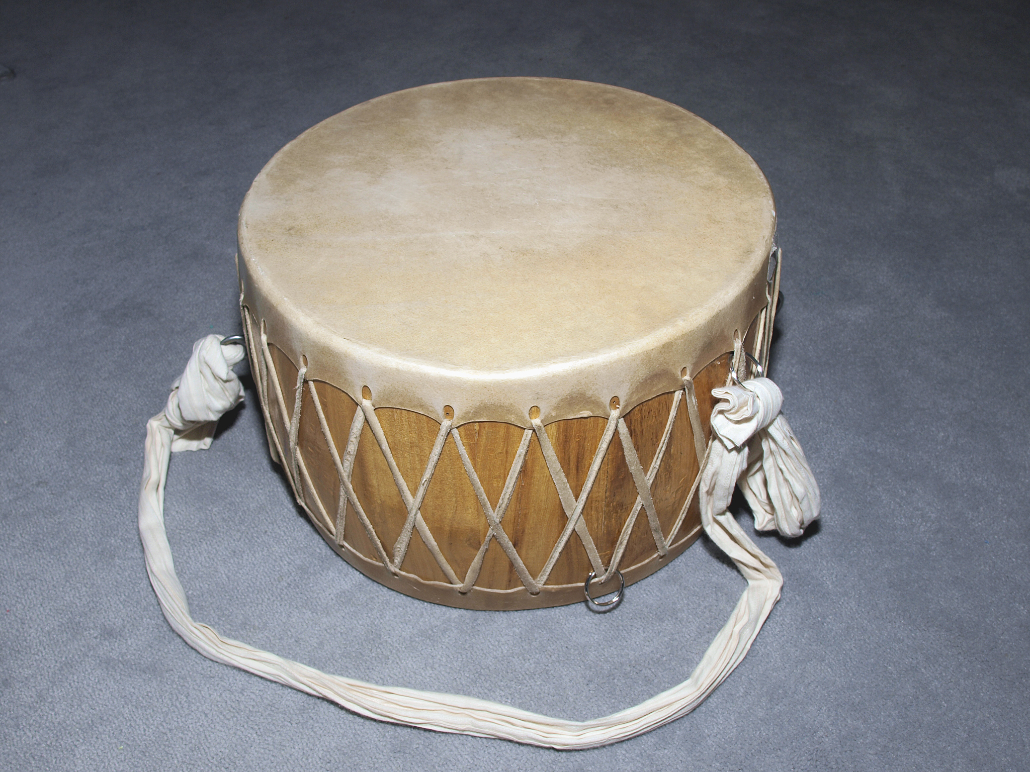 Jindo-Buk, Korean traditional drum